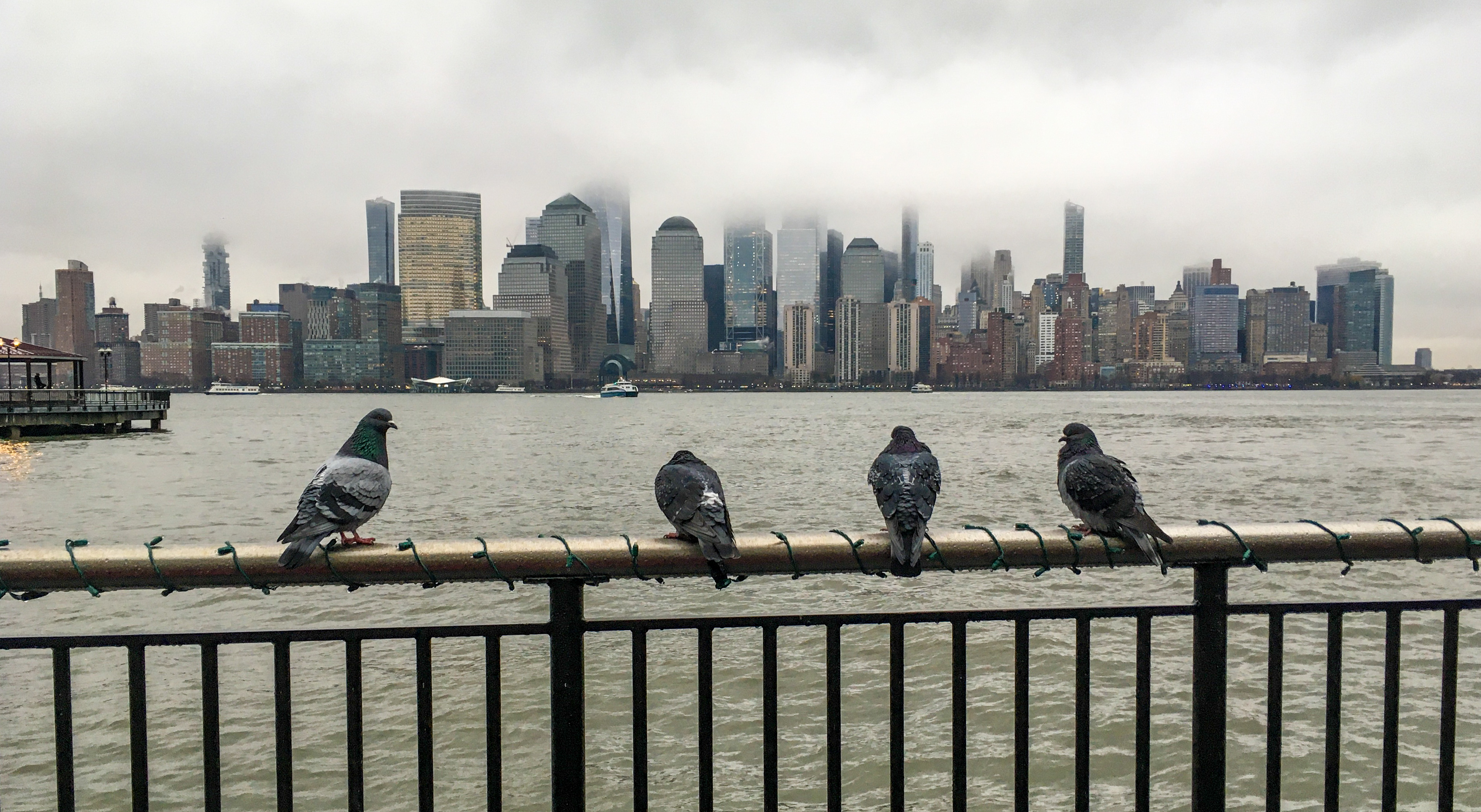 Downtown Manhattan Skyline seen from Exchange Place, with a ferry service departing the Battery Park City terminal towards Paulus Hook in the background.